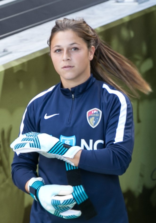 Sabrina D'Angelo with the North Carolina Courage in 2017